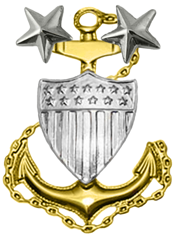 US Coast Guard Master Chief Petty Officer Collar Device rate insignia